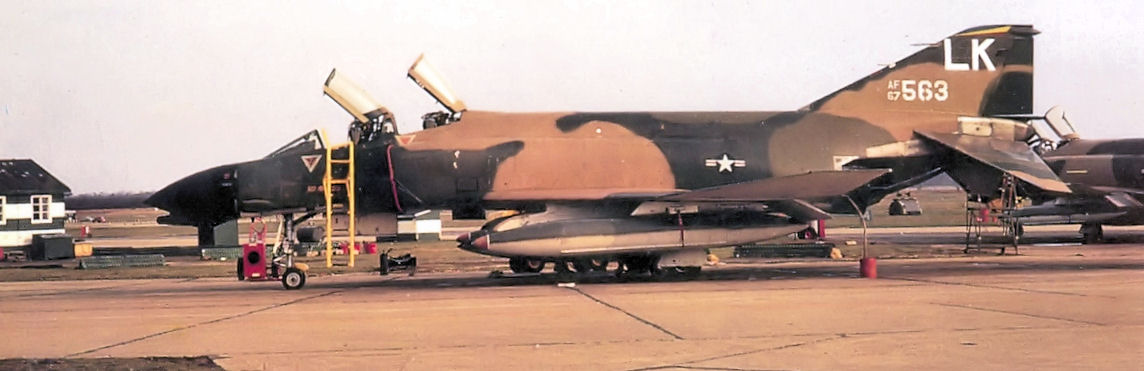 493d Tactical Fighter Squadron - McDonnell F-4D-30-MC Phantom - 66-7563